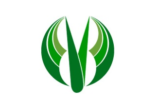 Flag of Mizuho Gifu